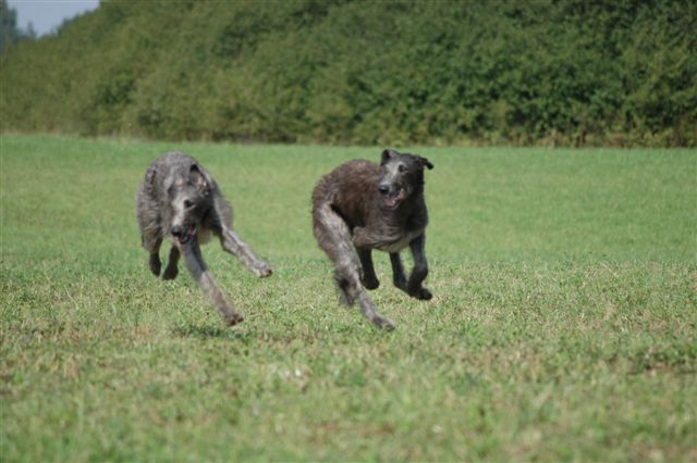 Deerhounds - Bellisima i Bordeaux from kennel "Festina", Poland. The owner - Hanna Woźna - Gil